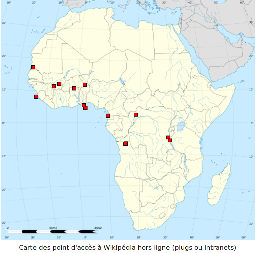 Map of offline access to Wikipedia via the Afripedia project. Update on the project page